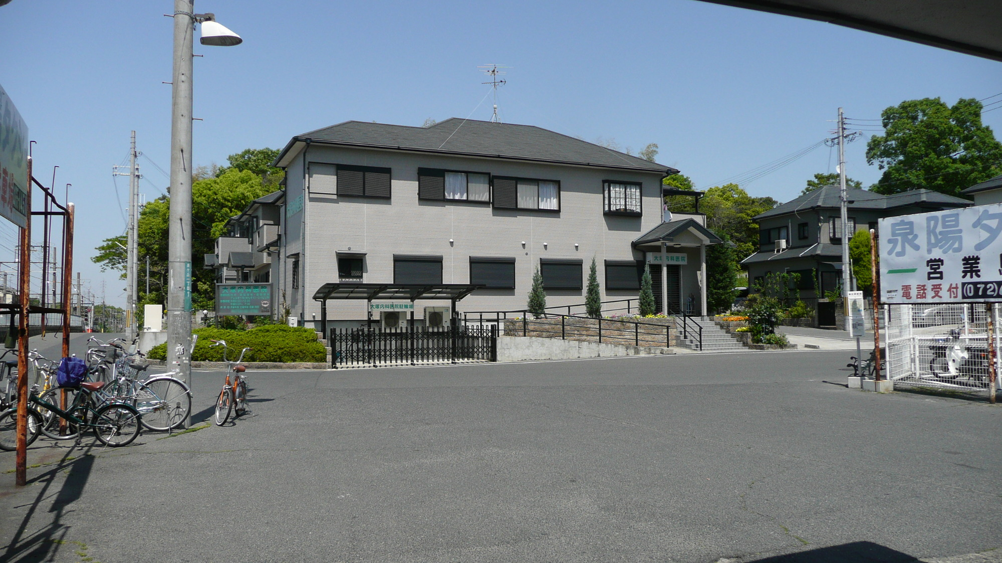 Higashi-sano Station plaza,JR Hanwa Line.